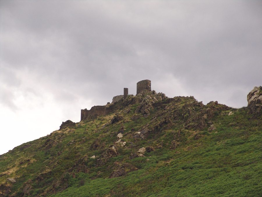 The Verdera castle (Alt Empordà), from NW.